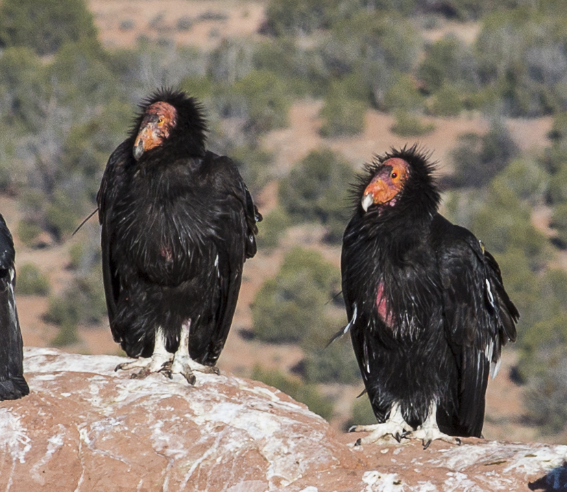 Seventy-five of the world’s 439 condors live throughout northern Arizona and southern Utah, and within the Vermilion Cliffs National Monument managed by the BLM's National Conservation Lands. Photo Credit: Bob Wick, BLM